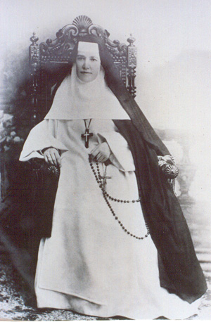 Teresa de Saldanha, in her abbess habit.